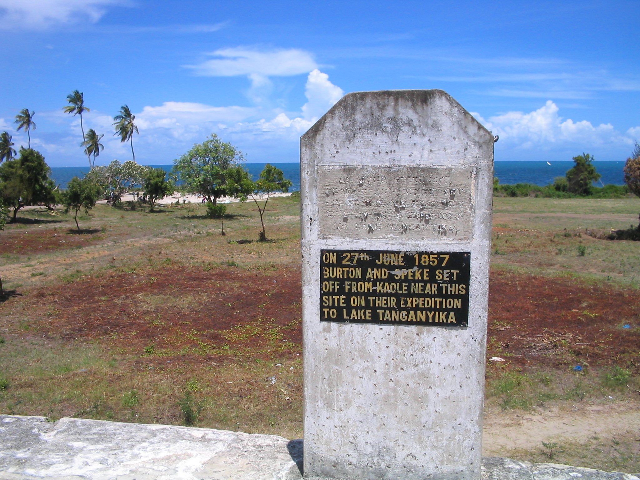 Burton and Speke starting point at Kaole